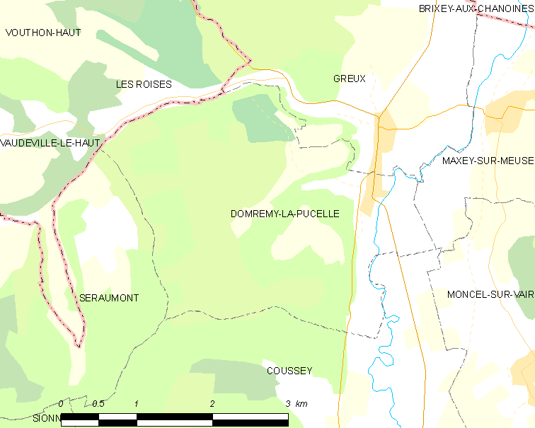 Map of French municipality Domrémy-la-Pucelle